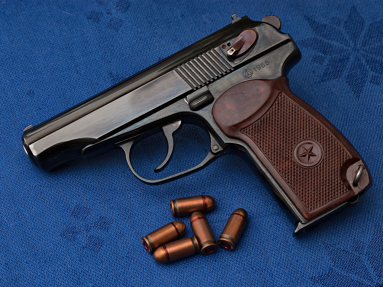 500px provided description: Makarov [#gun ,#weapon ,#pistol ,#handgun ,#firearm ,#makarov]